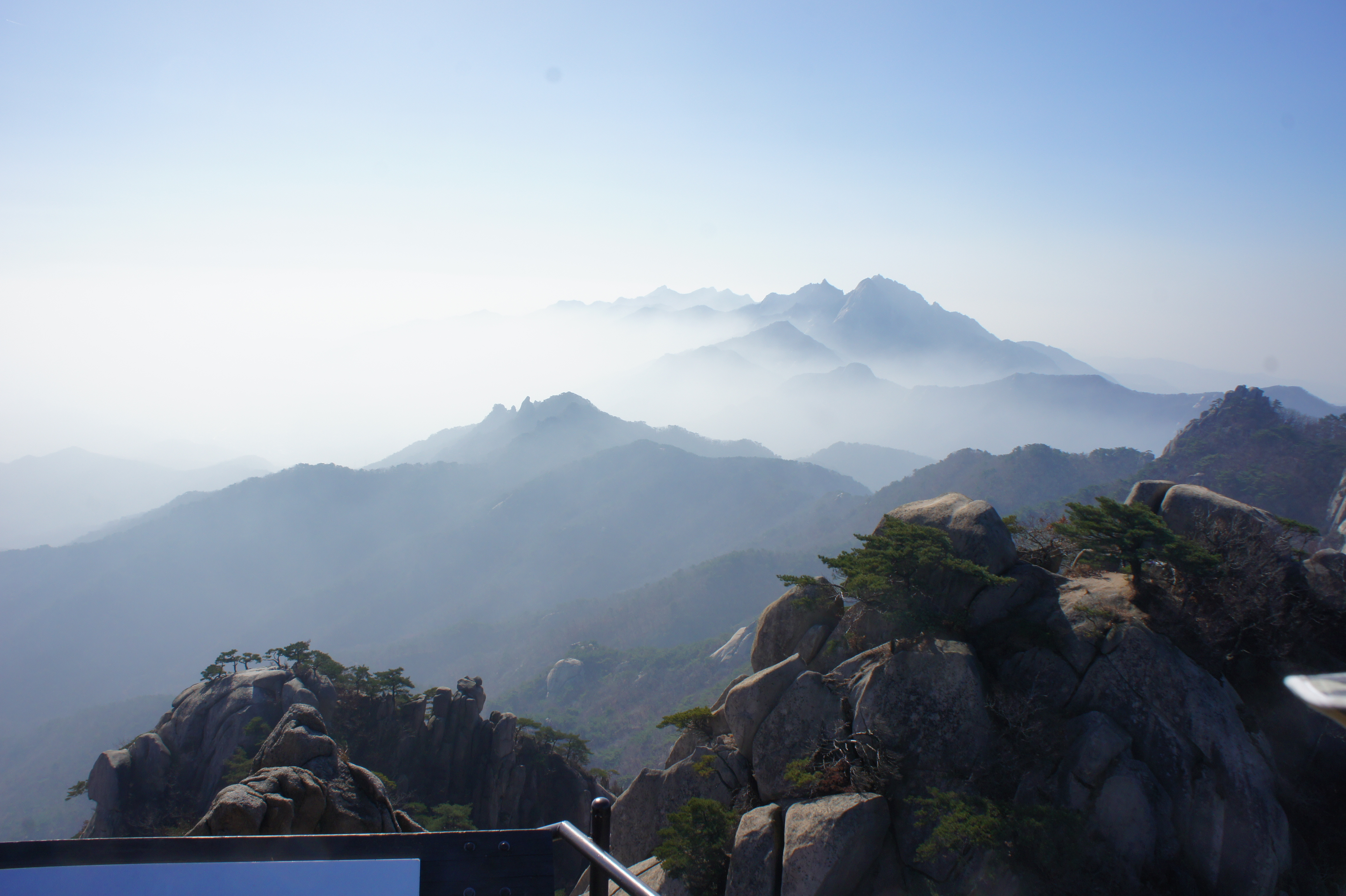 Mount Bukhansan (북한산) seen from Shinseondae (신선대) Peak observation area.